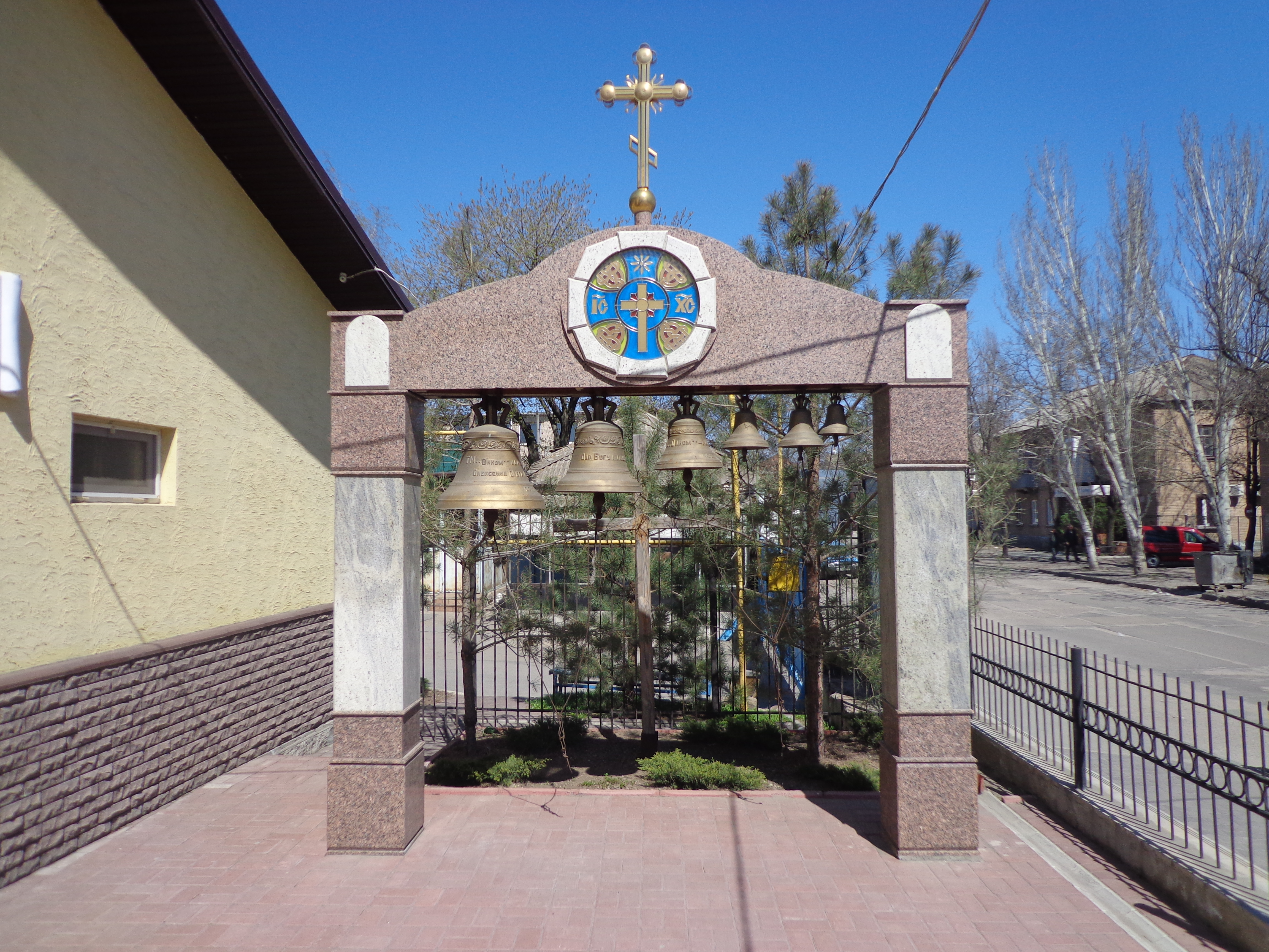 Bells in Cyril and Methodius Church, Melitopol, Zaporizhia Oblast, Ukraine